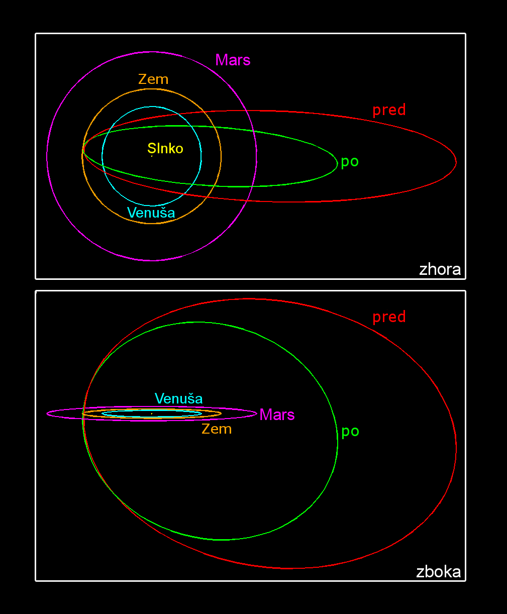 Orbital path of the Earth-grazing meteoroid of 13 October 1990 before and after it encountered Earth. Orbital paths of Venus and Mars are shown for size comparison. Note that the side view is inclined about 1 degree to allow for viewing of the planetary orbits.